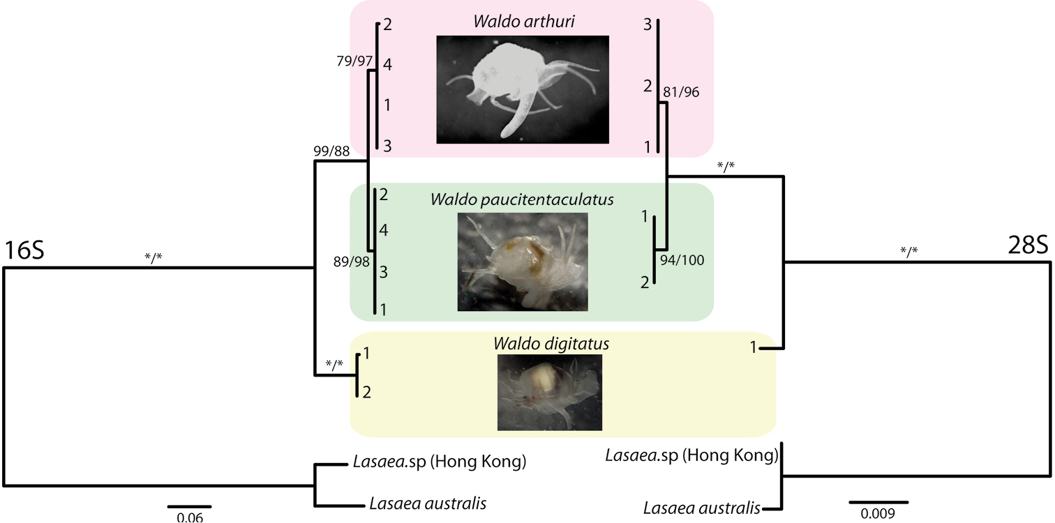 Mitochondrial 16S and nuclear 28S ribosomal gene phylogenies of three mollusk species belonging to genus Waldo. Numbers at branch tips represent specimen identification (ID) numbers. Support values along branches are reported as Bayesian posterior probabilities and maximum likelihood (ML) bootstrap values respectively. An asterisk indicates a support value of 100. The scale bars represent expected numbers of substitutions per site.